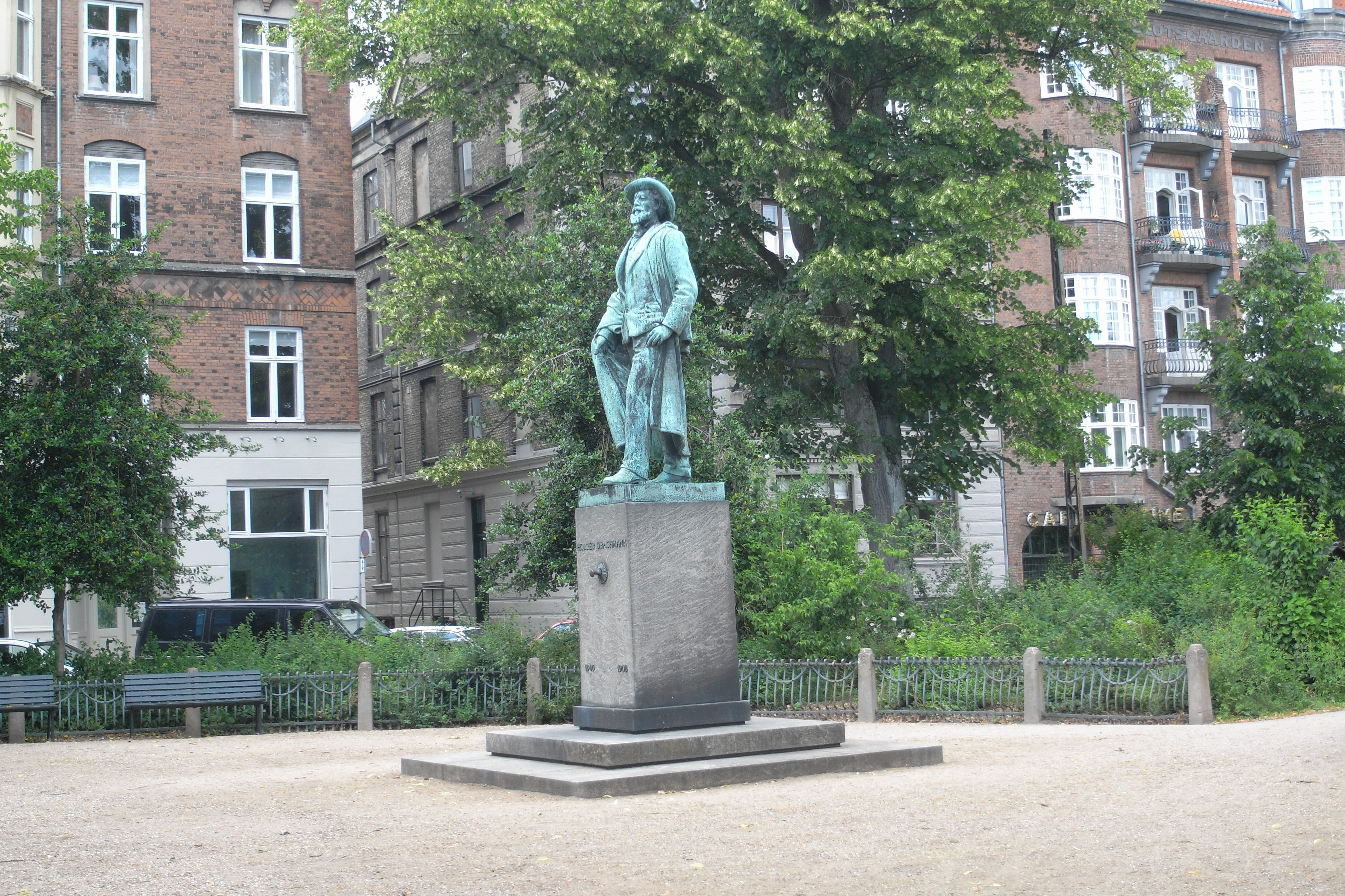 The garden complex at Allégade with the Holger Drachmann statue in the Frederiksberg district of Copenhagen, Denmark.